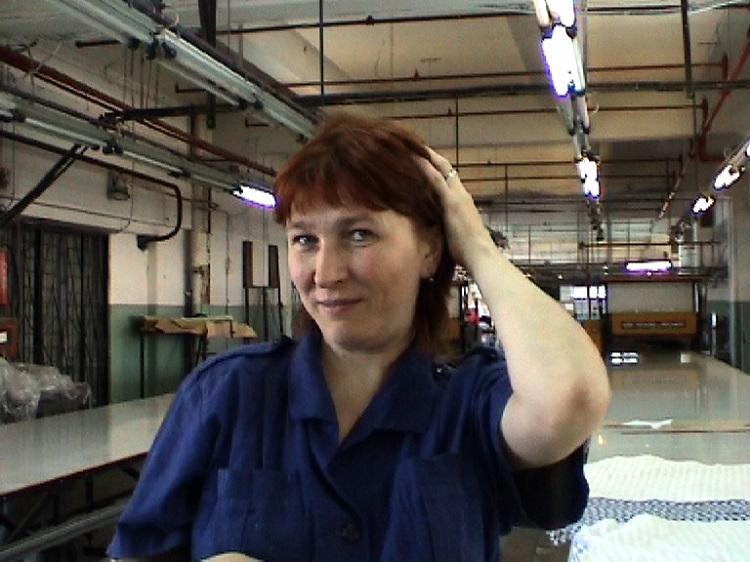 video fragment from the exhibition